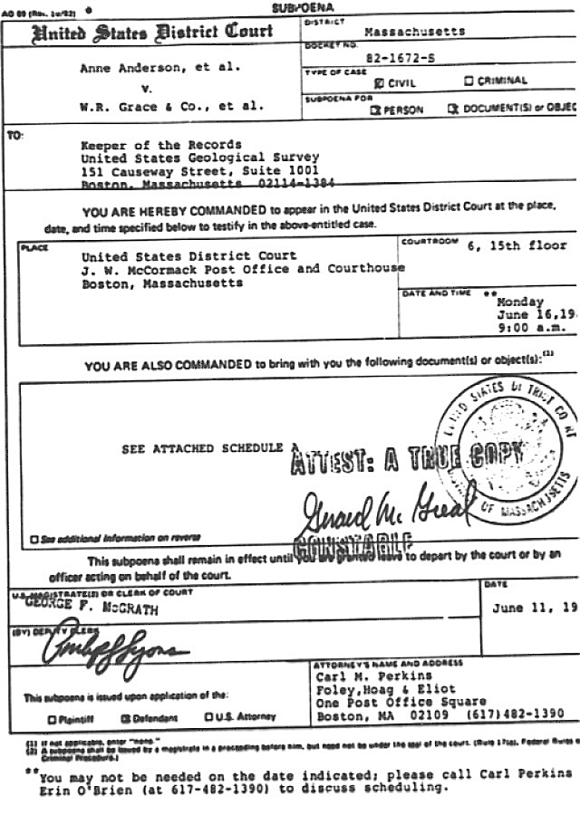 Copy of Subpoena in Anderson v. Cryovac landmark case